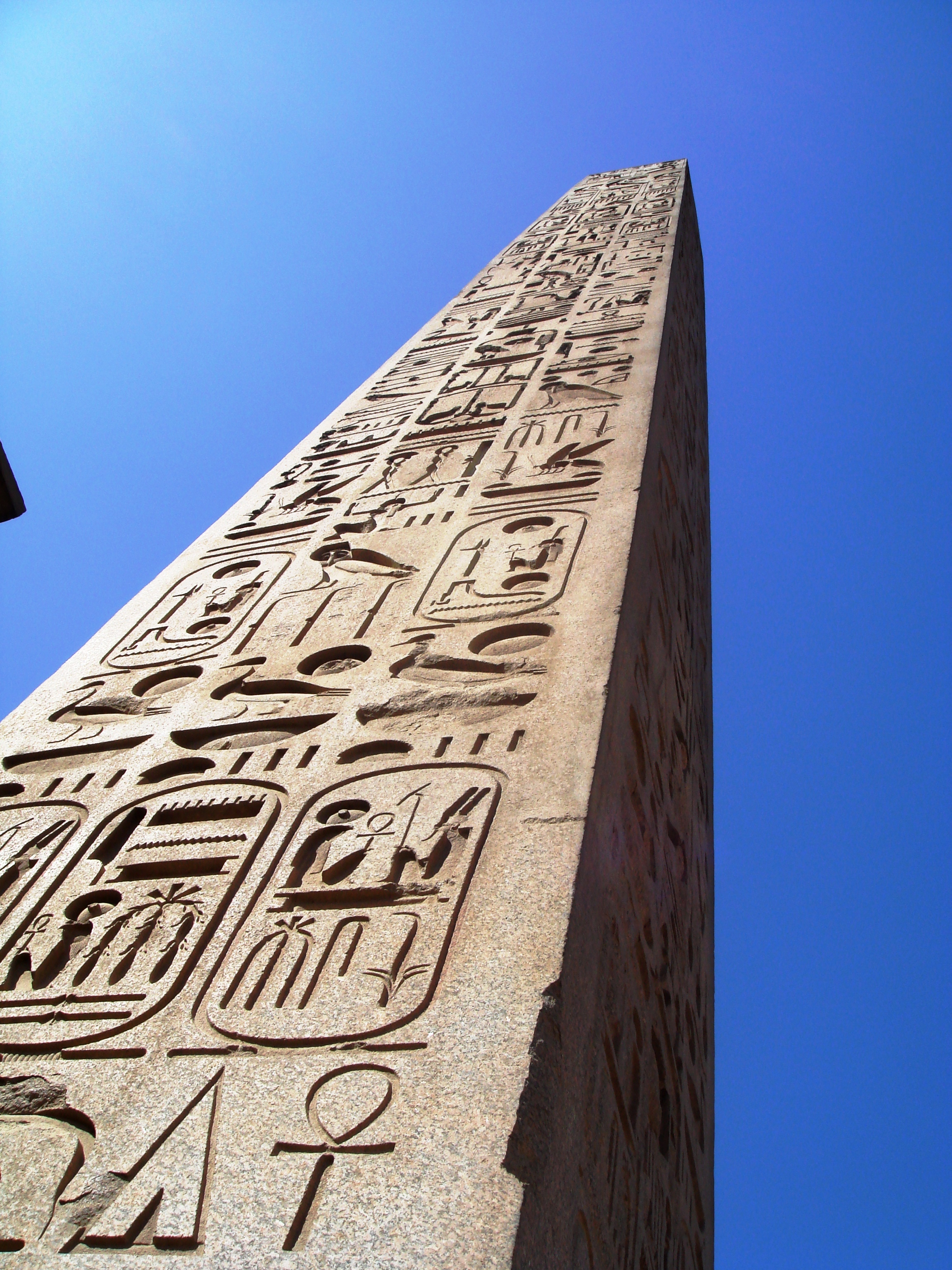 The red granite obelisk at the entrance to Luxor Temple in Luxor Egype